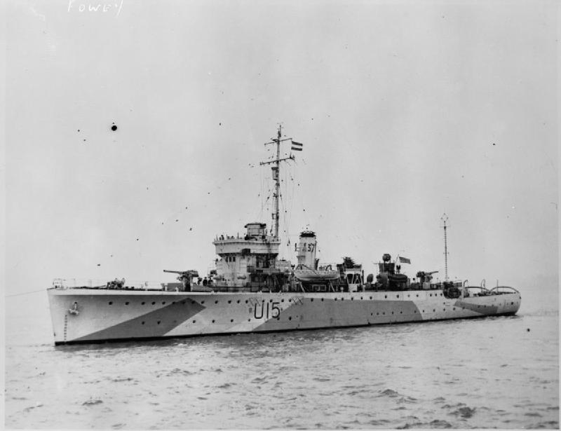 Photograph of British sloop HMS Fowey.